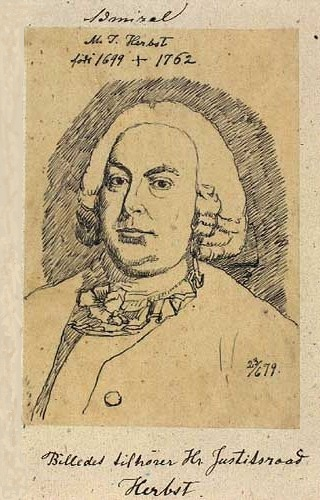 Michael Johan Herbst (1699-1762), Danish Read Admiral and architect